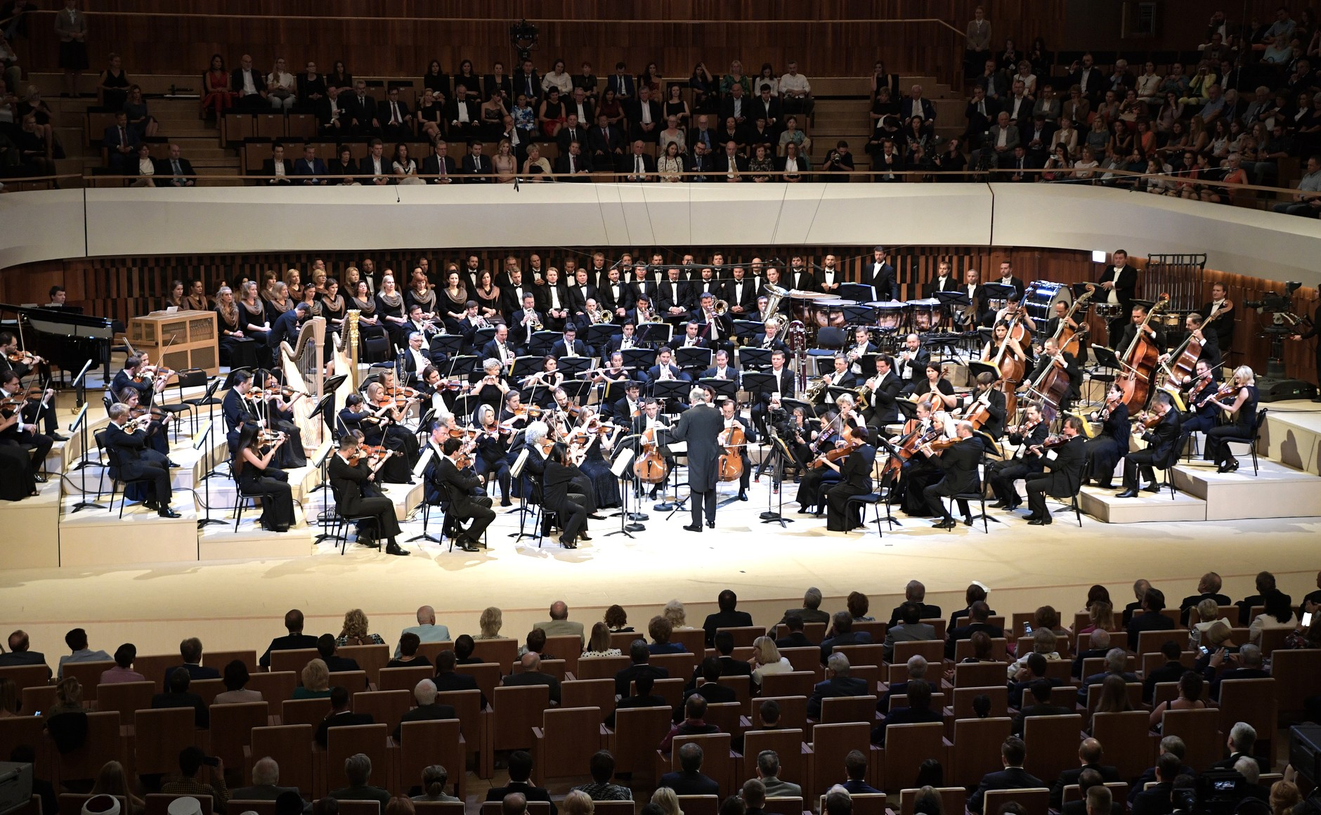 Opening of Zaryadye Concert Hall. Artistic Director of the Mariinsky Theatre Valery Gergiev.